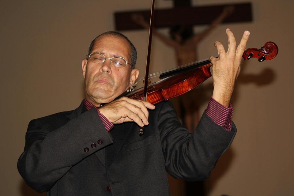 Jesús Hernández in concert the year 2019